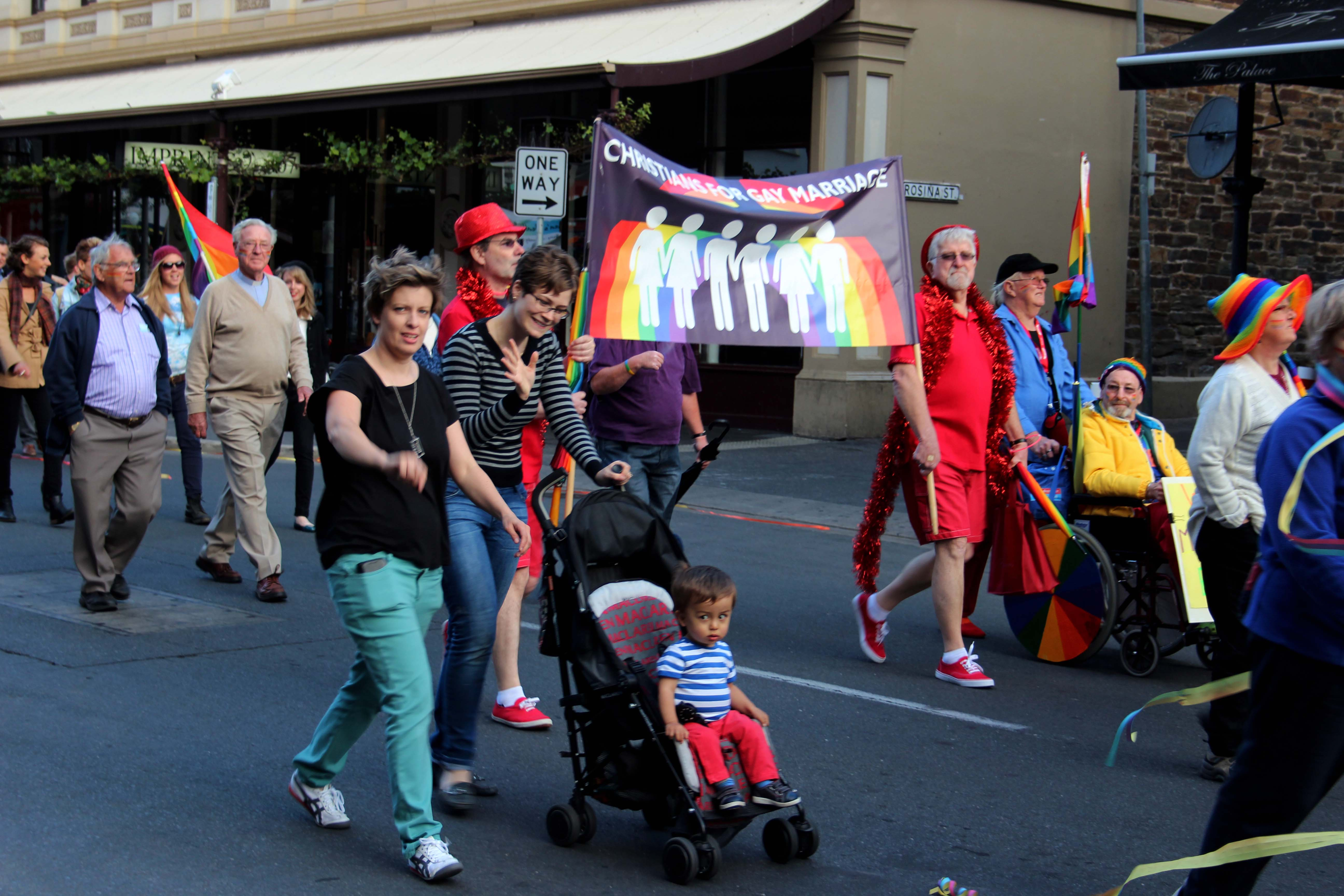 Pride March Adelaide 9 November 2013.